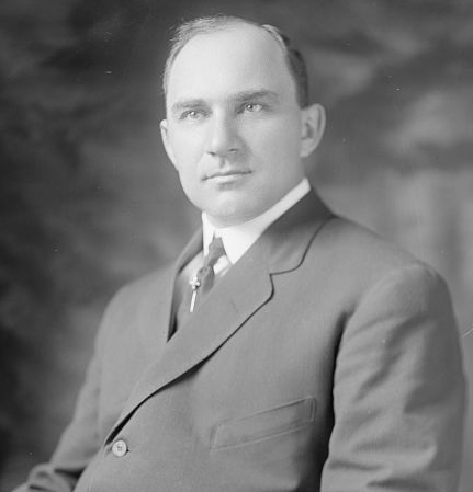 Kentucky Congressman Arthur Rouse